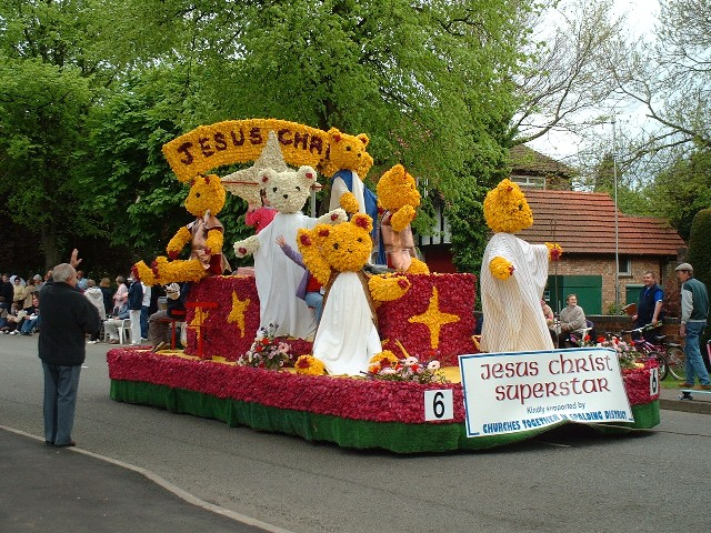 Float at Spalding Flower Festival